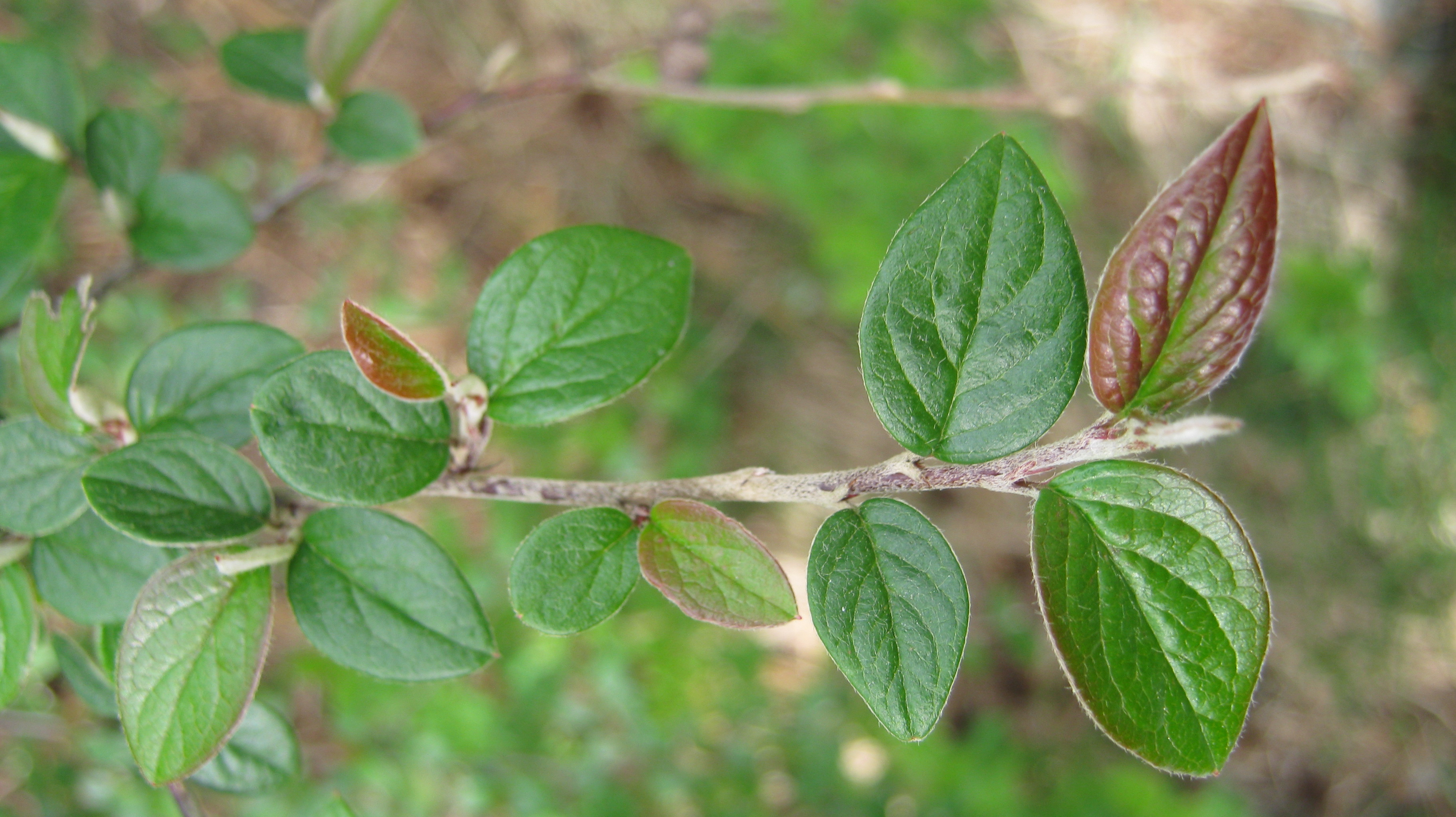 Leafs of Cotoneaster dielsianus. From Bergen, Norway. Taken in spring.